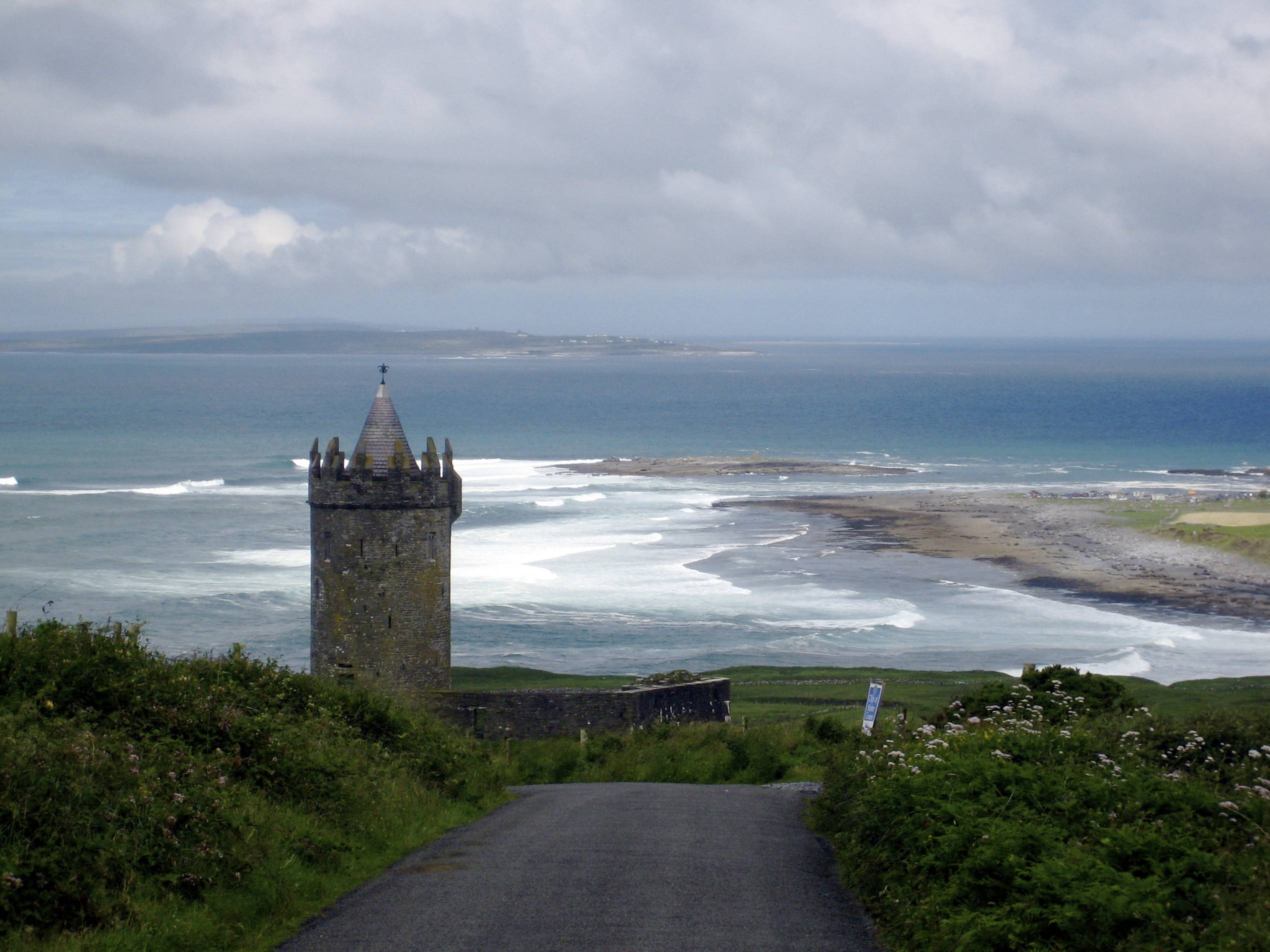 View of Doonagore Castle and the Aran Islands in Ireland